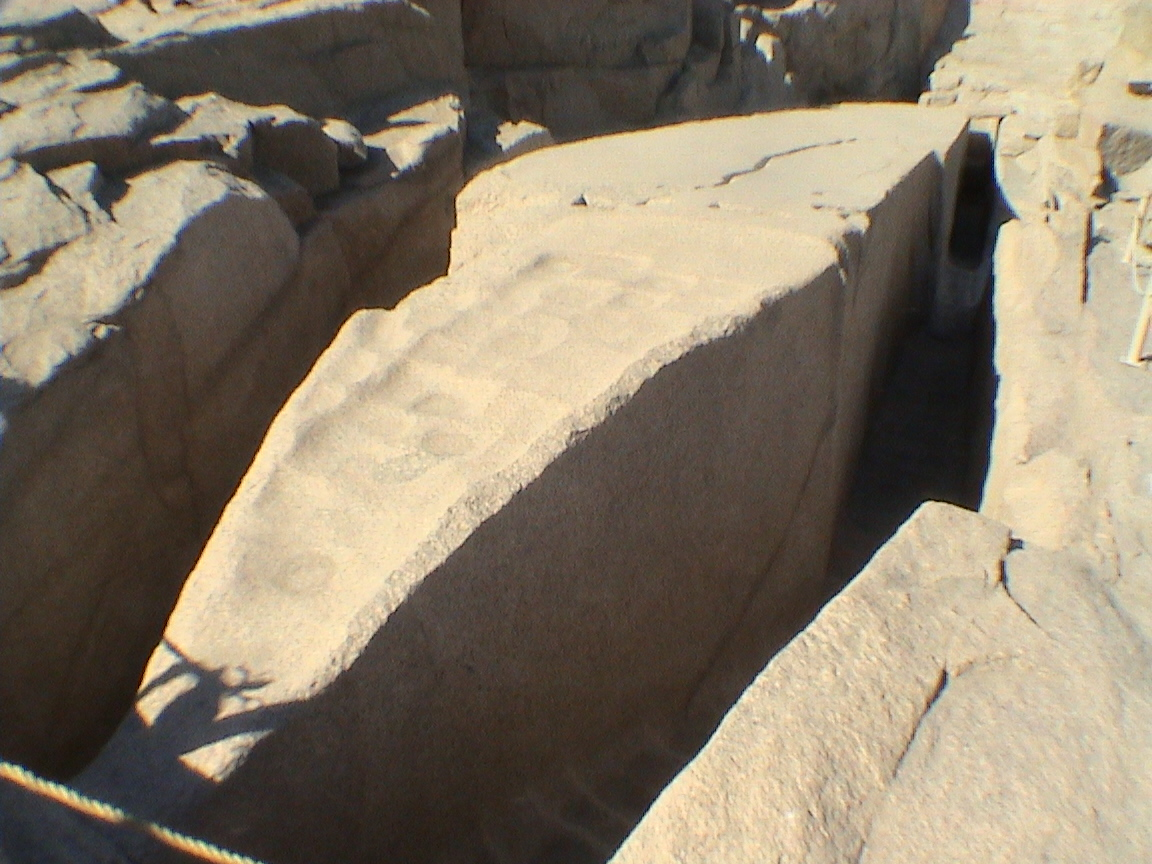 Unfinished obelisk in Aswan. Own work, picture taken September 2006 at Aswan